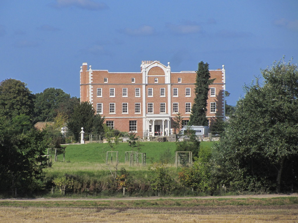 Hankelow Hall, near Hankelow, Cheshire